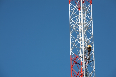 Tower Climbing Image courtesy of sakhorn38 /